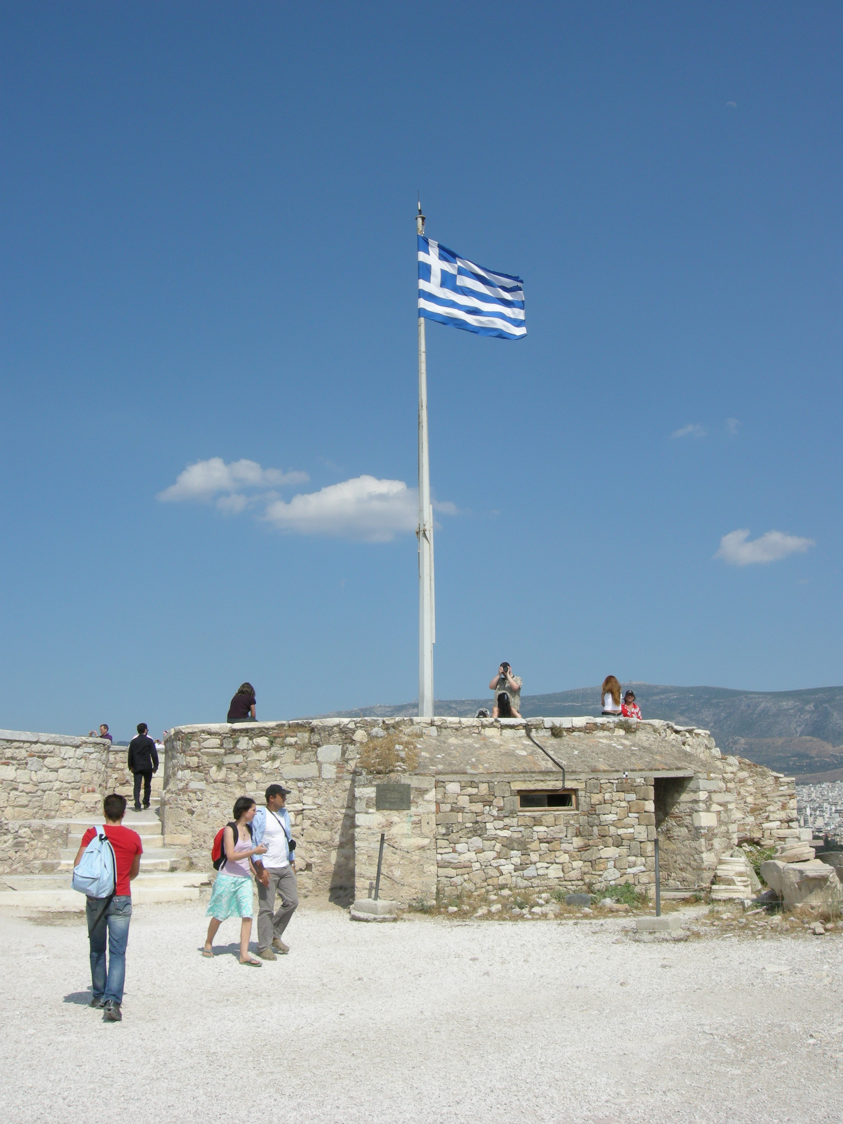 Acropolis of Athens 0